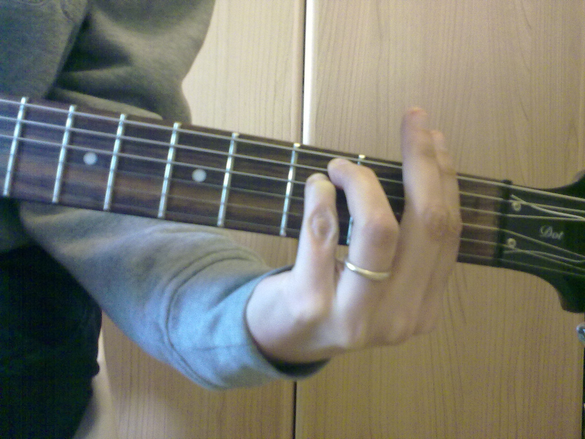 F minor bar chord guitar